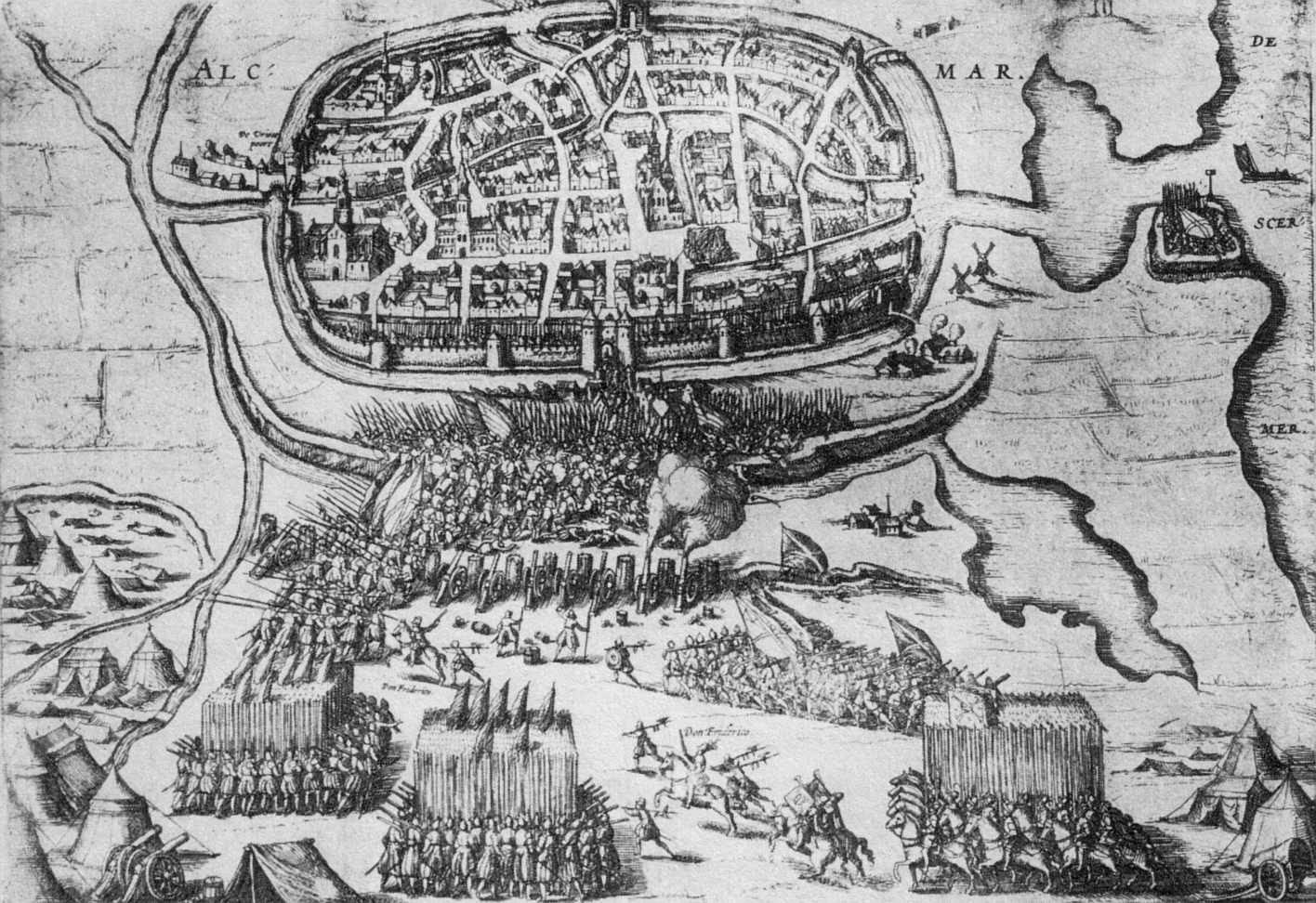 Battle of Alkmaar 1573